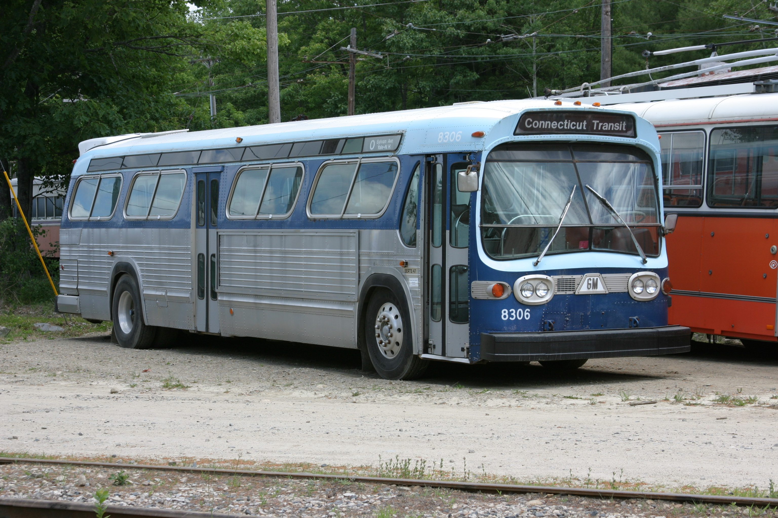 1980 GM Fishbowl Model T8H-5307A #8306 of Connecticut Transit on display at Seashore Trolley Museum in June 2007